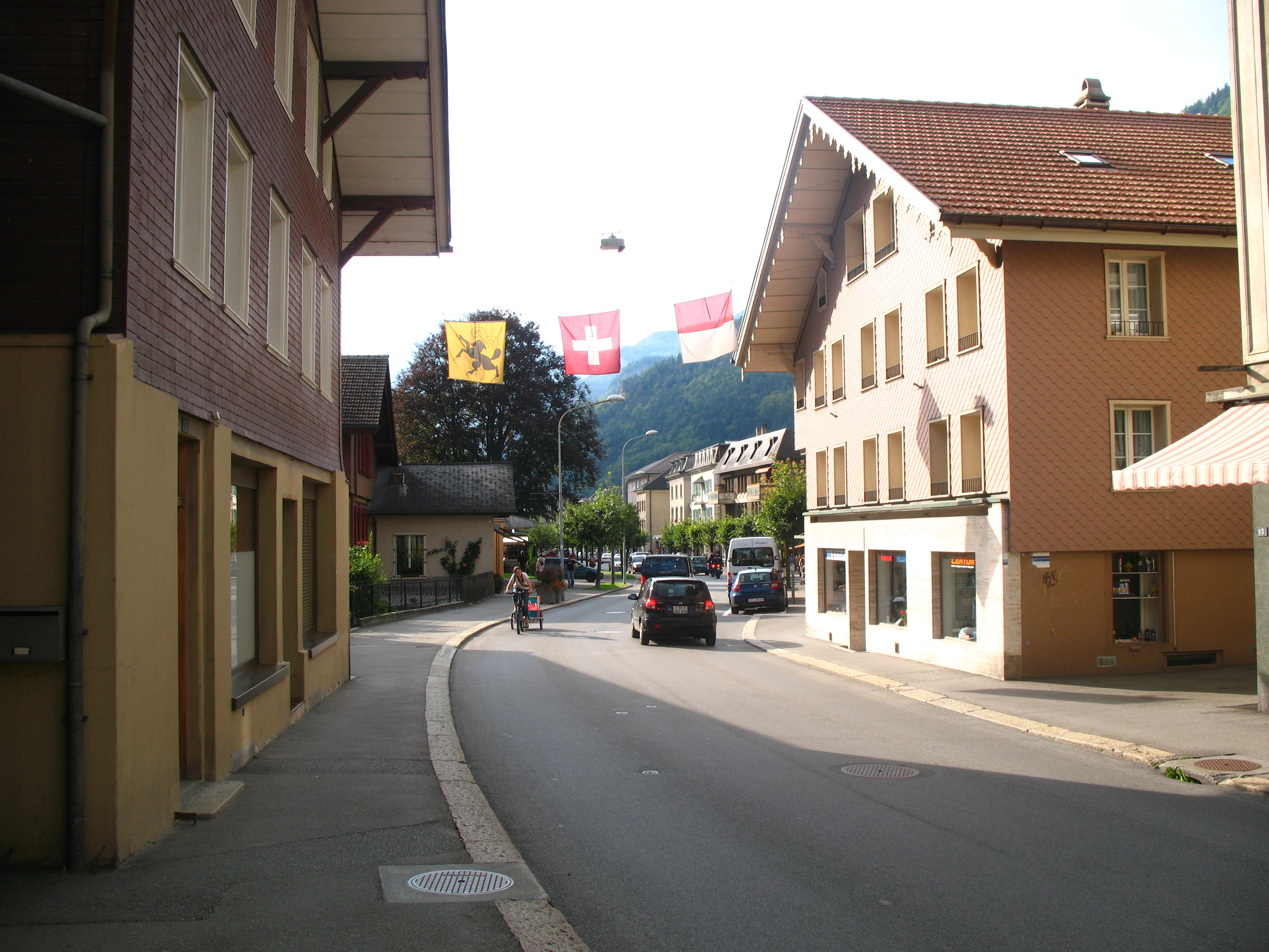 Rudenz, Meiringen, Switzerland